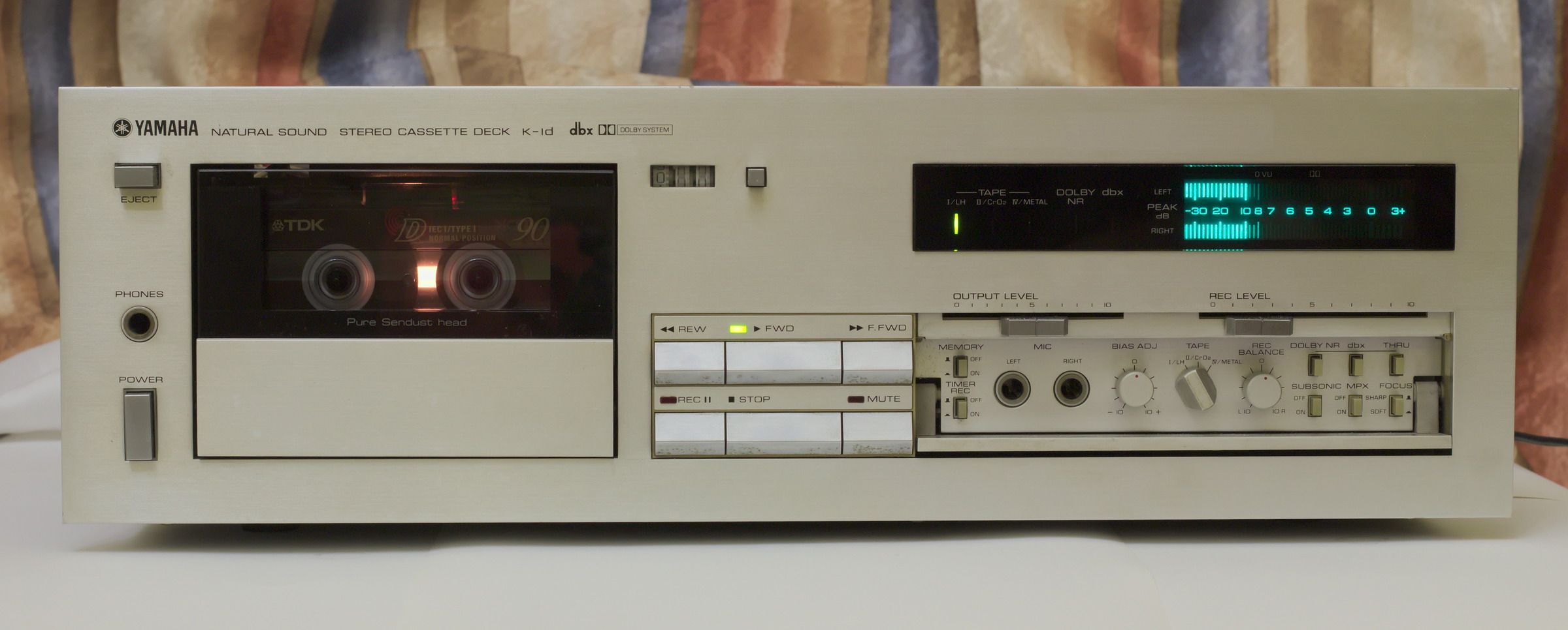 Yamaha k-1d cassette deck (JDM model; K960 in Europe). Front view. Yes, it needs cleaning - expecting major overhaul.